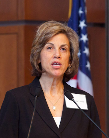 Photograph of Marsha Lester, chemical physicist, at the Ullyot Public Affairs Lecture, November 18, 2010, Science History Institute, Philadelphia, PA, USA.